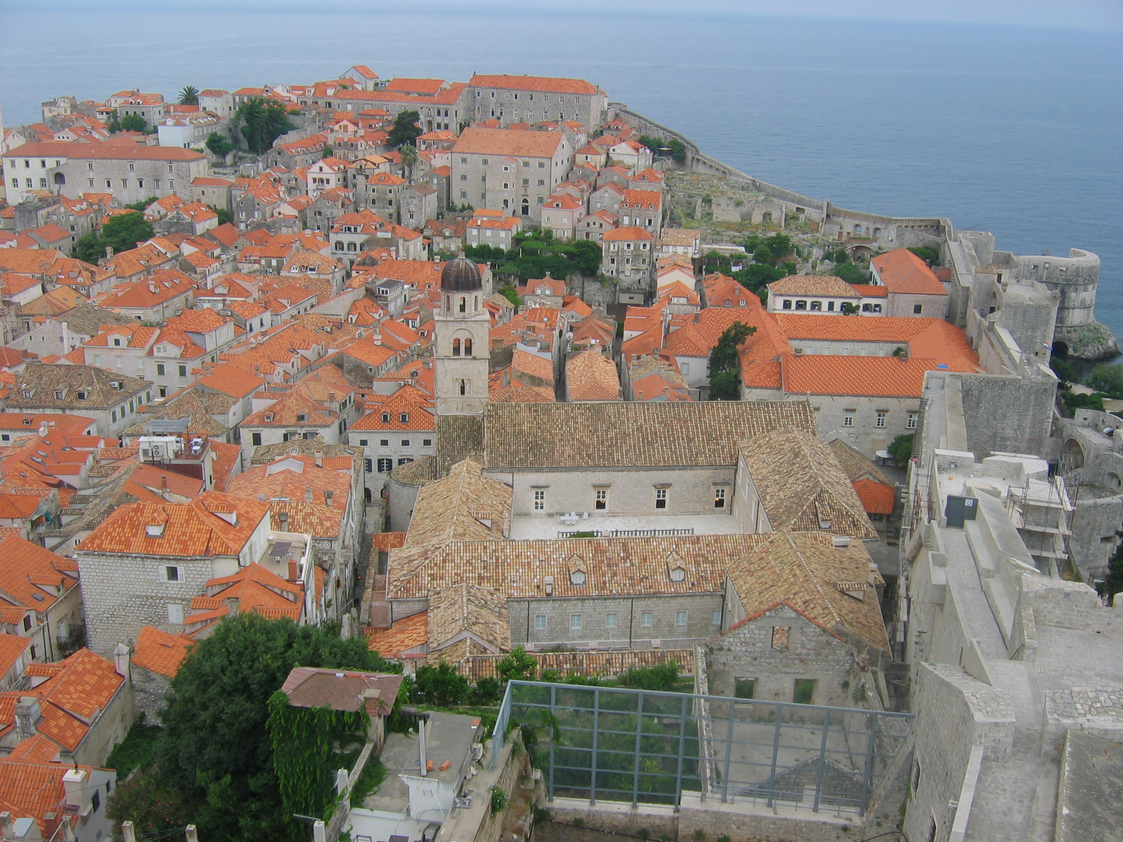 A view of Dubrovnik from the highest point on the perimeter walls, Minčeta Fortress.